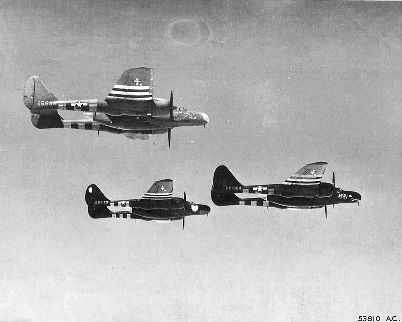 422d Night Fighter Squadron P-61A Black Widows in formation with Invasion Markings, June 1944